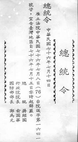 The end of the martial law in Taiwan Province, Taipei City and Kaohsiung City, effective 1987-07-15 T00:00+08:00